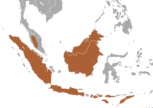 Sunda Shrew (Crocidura monticola) range